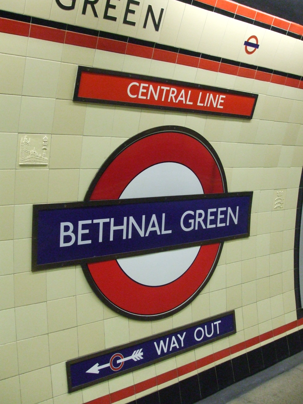 Roundel on Bethnal Green tube station westbound platform